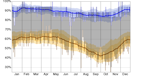 The daily low (brown) and high (blue) relative humidity during 2015 with the area between them shaded gray and superimposed over the corresponding averages (thick lines), and with percentile bands (inner band from 25th to 75th percentile, outer band from 10th to 90th percentile).